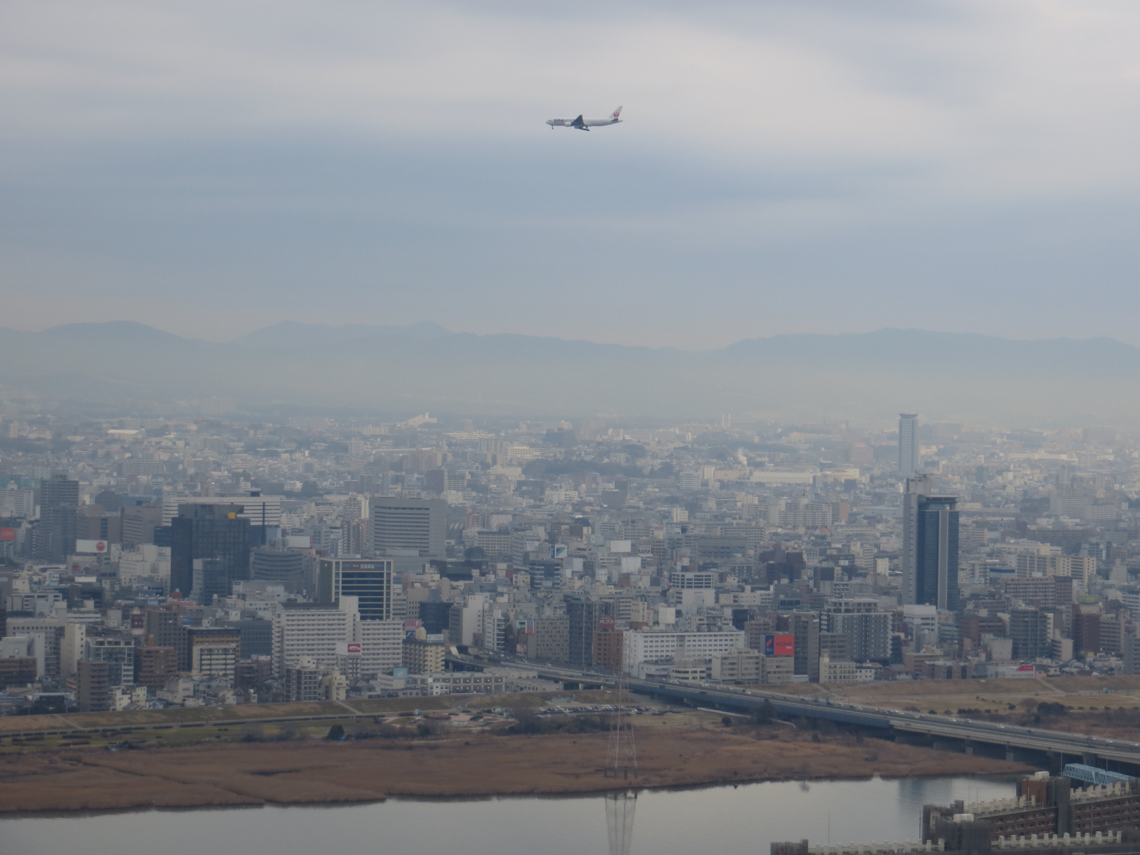 JAL Boeing 777 JA771J flying over Higashiyodogawa-ku and Yodogawa-ku, Osaka. View from Umeda Sky Building.